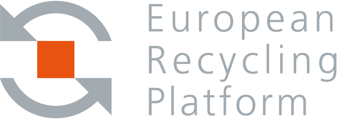 European Logo